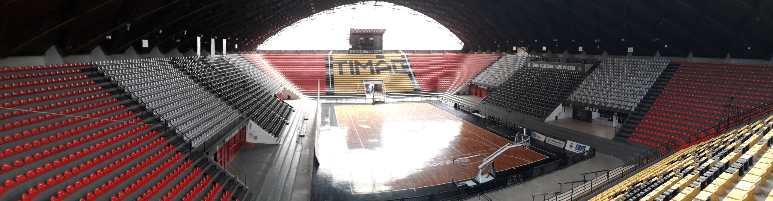 Ginásio Wlamir Marques, located in São Jorge Park, social and administrative headquarters of Corinthians